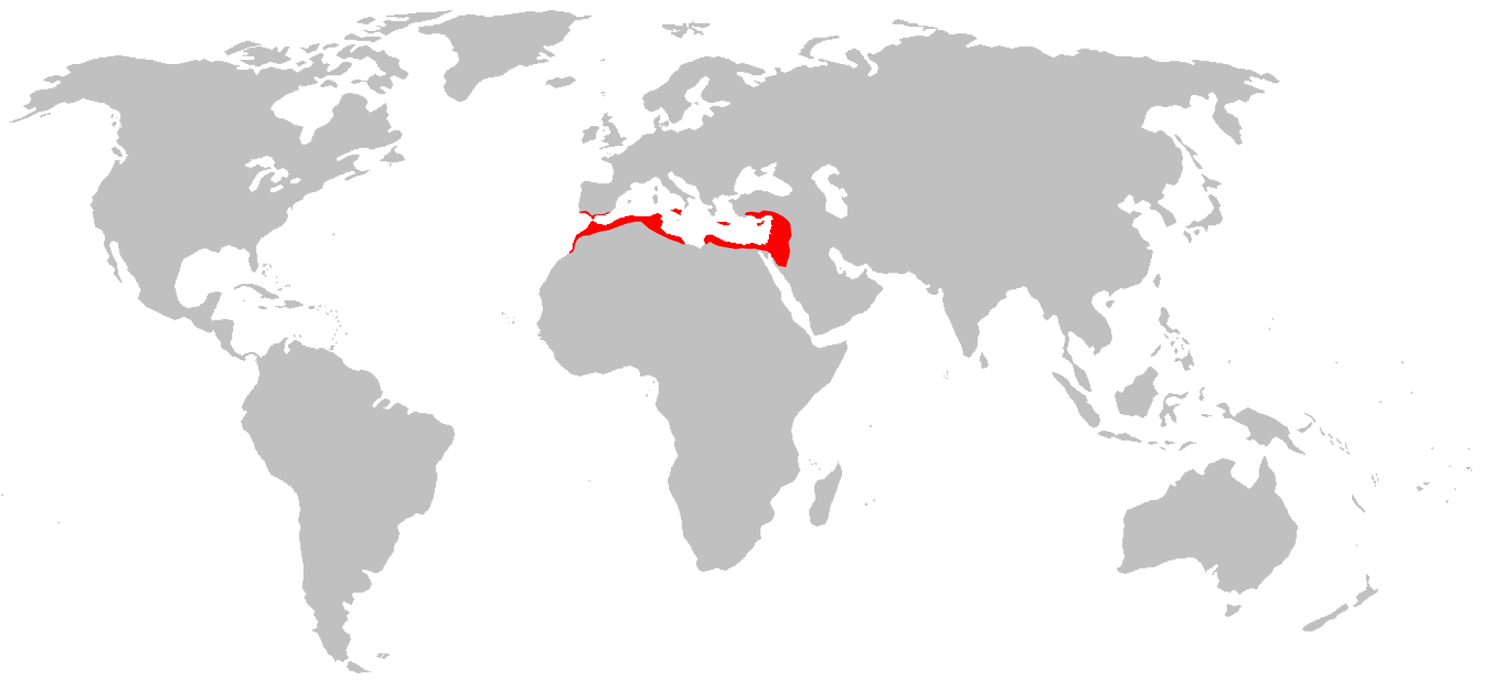 Chamaeleo chamaeleon range map.